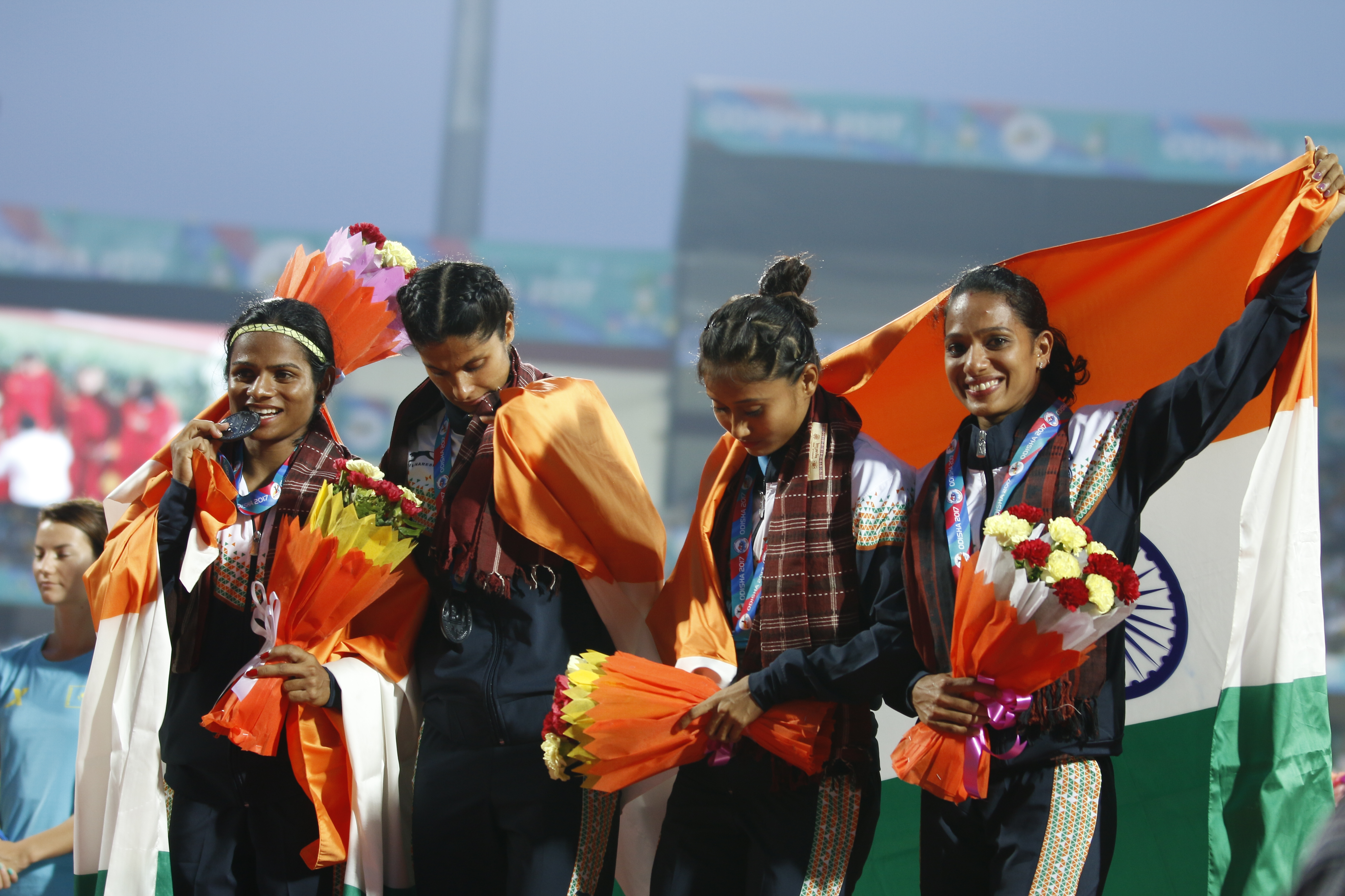 Athletes during 22nd Asian Athletics Championships in Bhubaneswar.